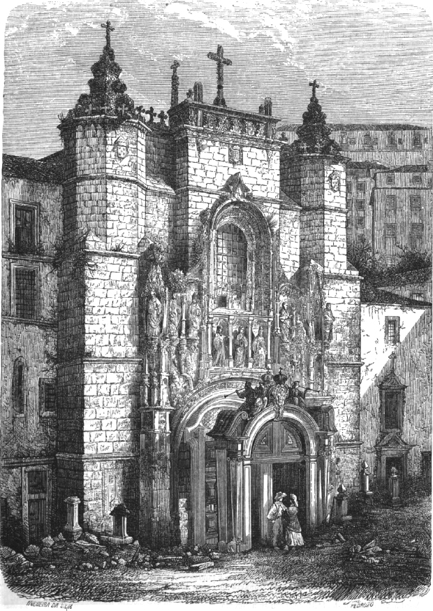 St Cruz Church in Coimbra, Portugal